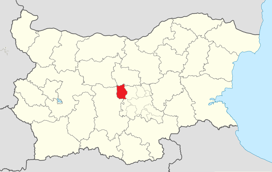 Location map of Pavel banya Municipality within Bulgaria and Stara Zagora Province